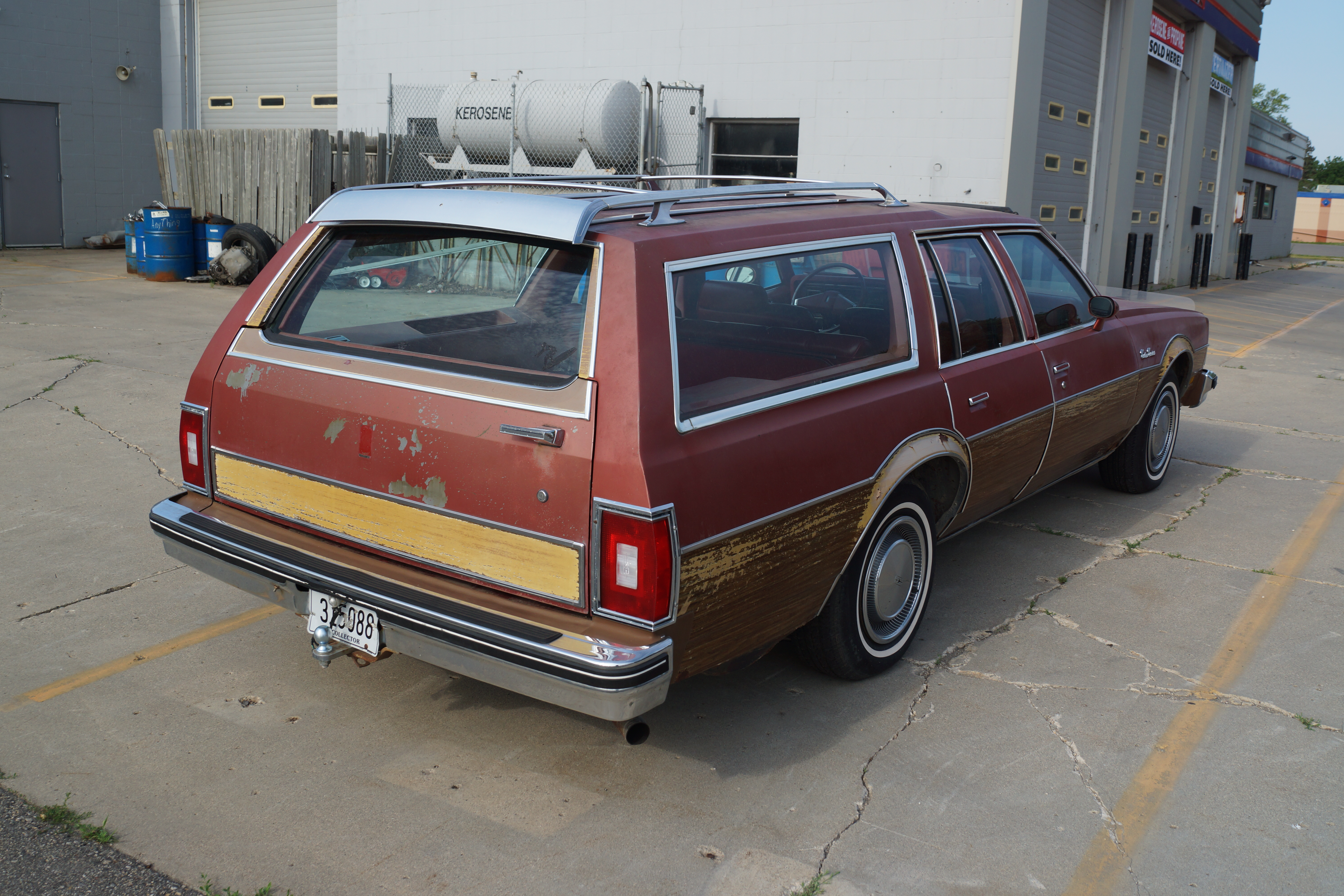 Click here for more car pictures at my Flickr site.